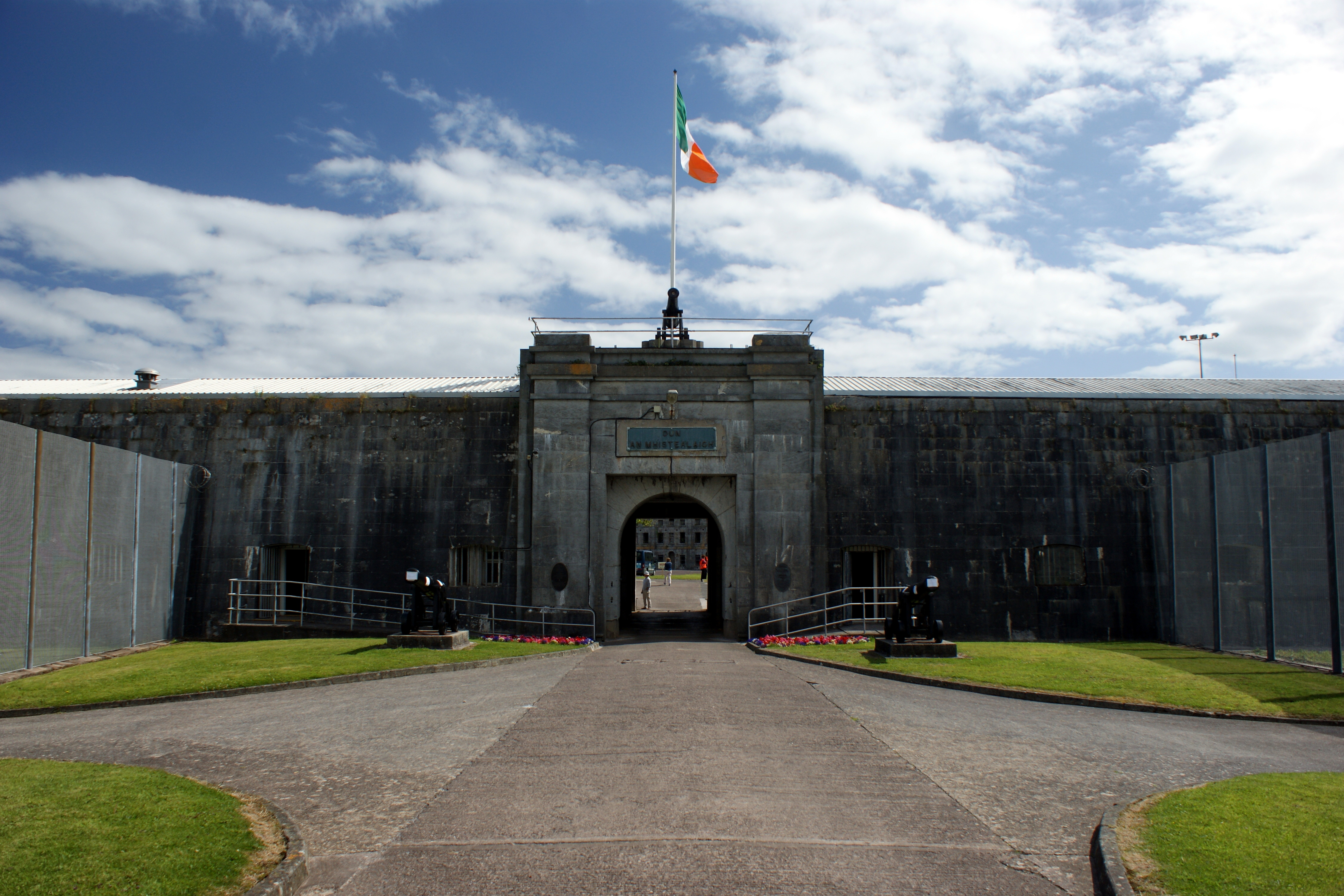 without fence (behind)